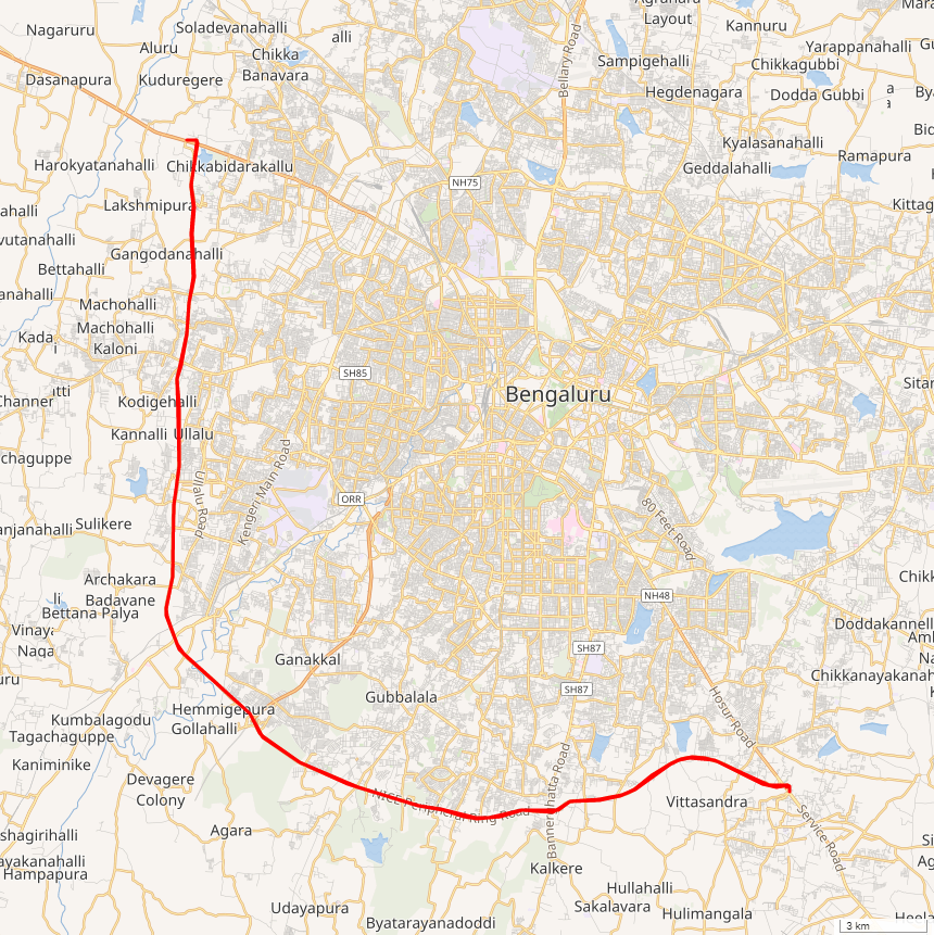 Location map of Bangalore Peripheral Expressway, which is part of the Bangalore Mysore Infrastructure Corridor.